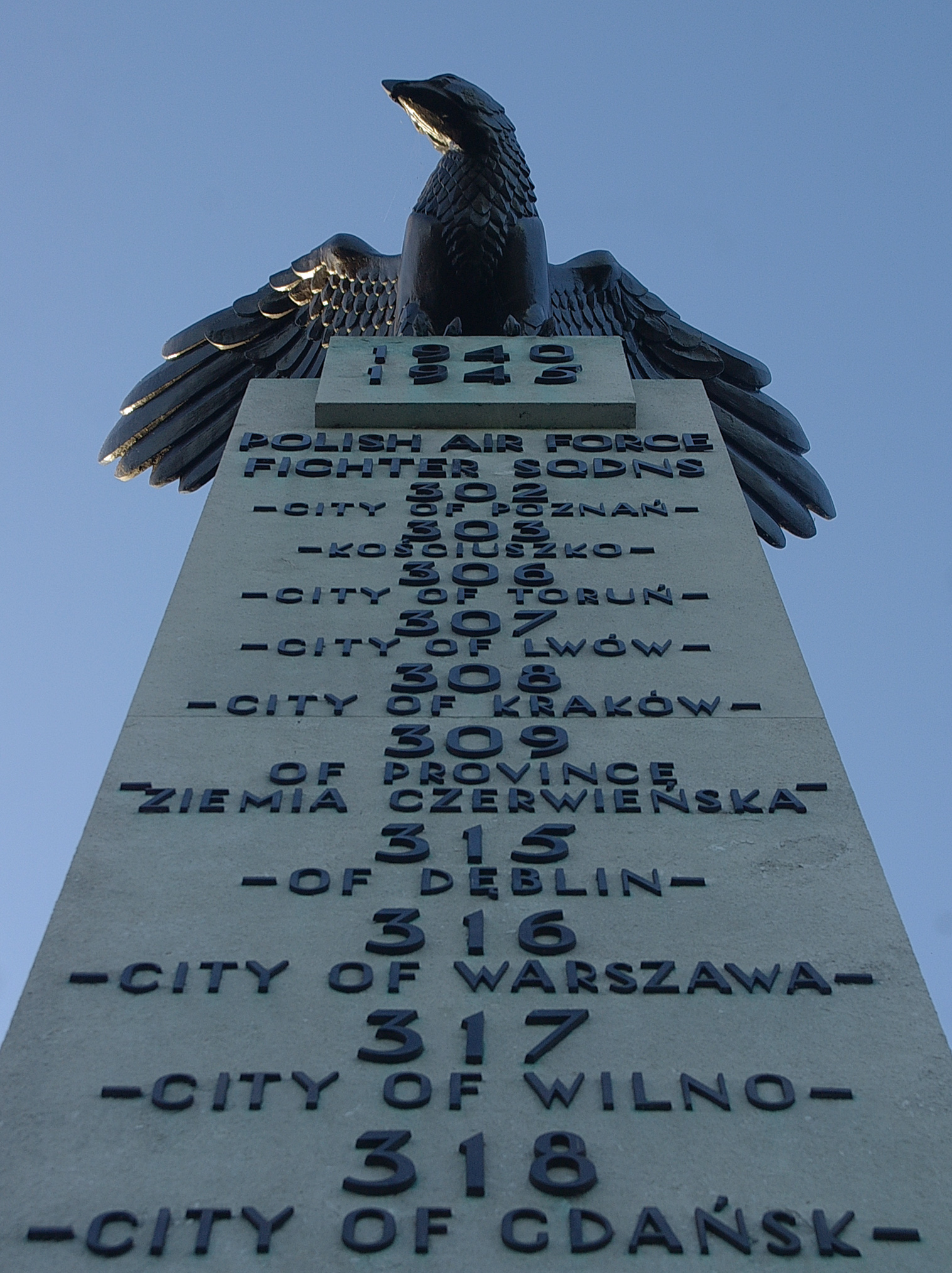 The Polish War Memorial near RAF Northolt, listing the names of all the Polish airmen who died during the Second World War, specifically those who died fighting in Britain.